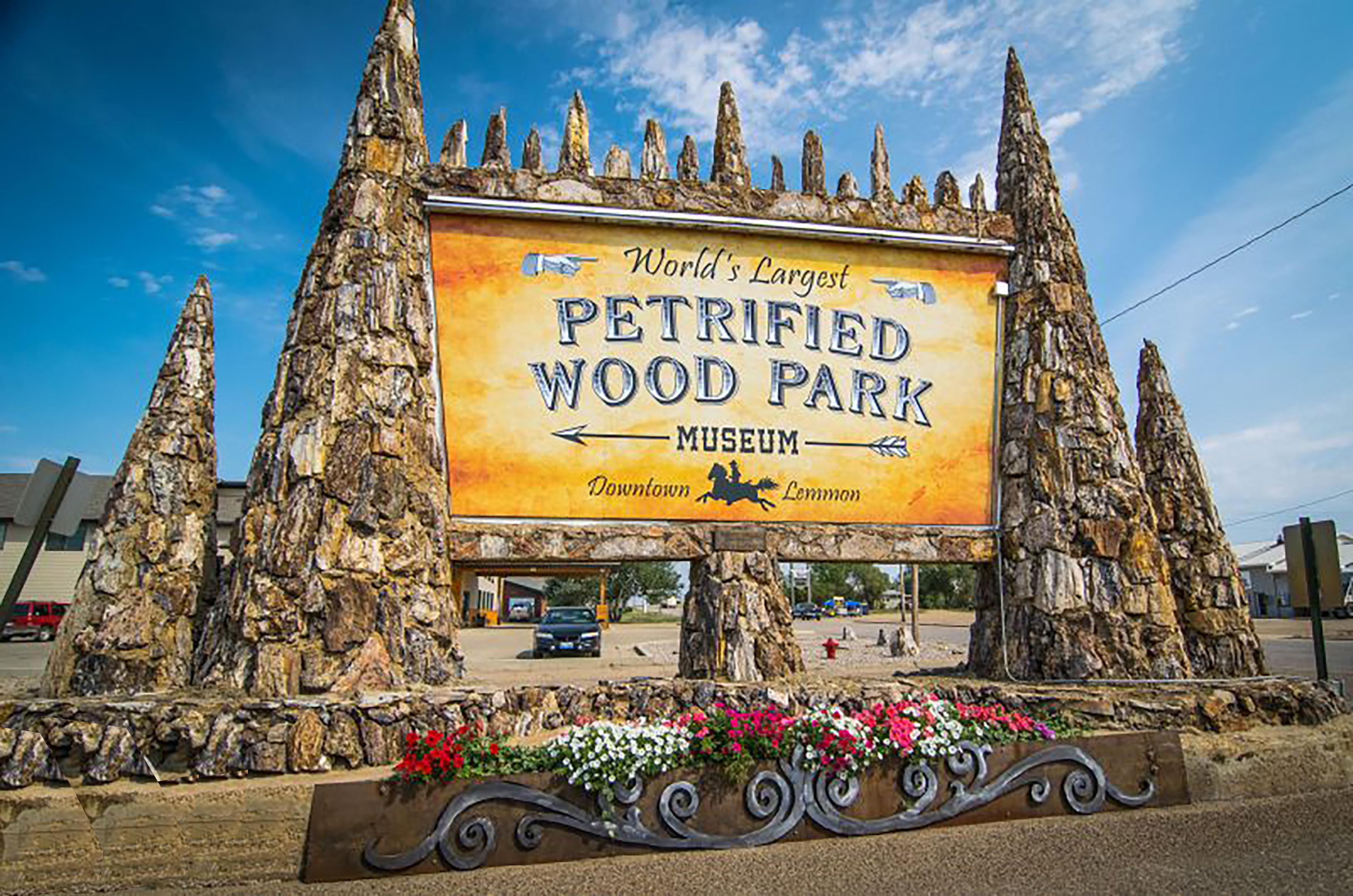 The Worlds Largest Petrified wood park sign greets you as you turn onto Main Ave.